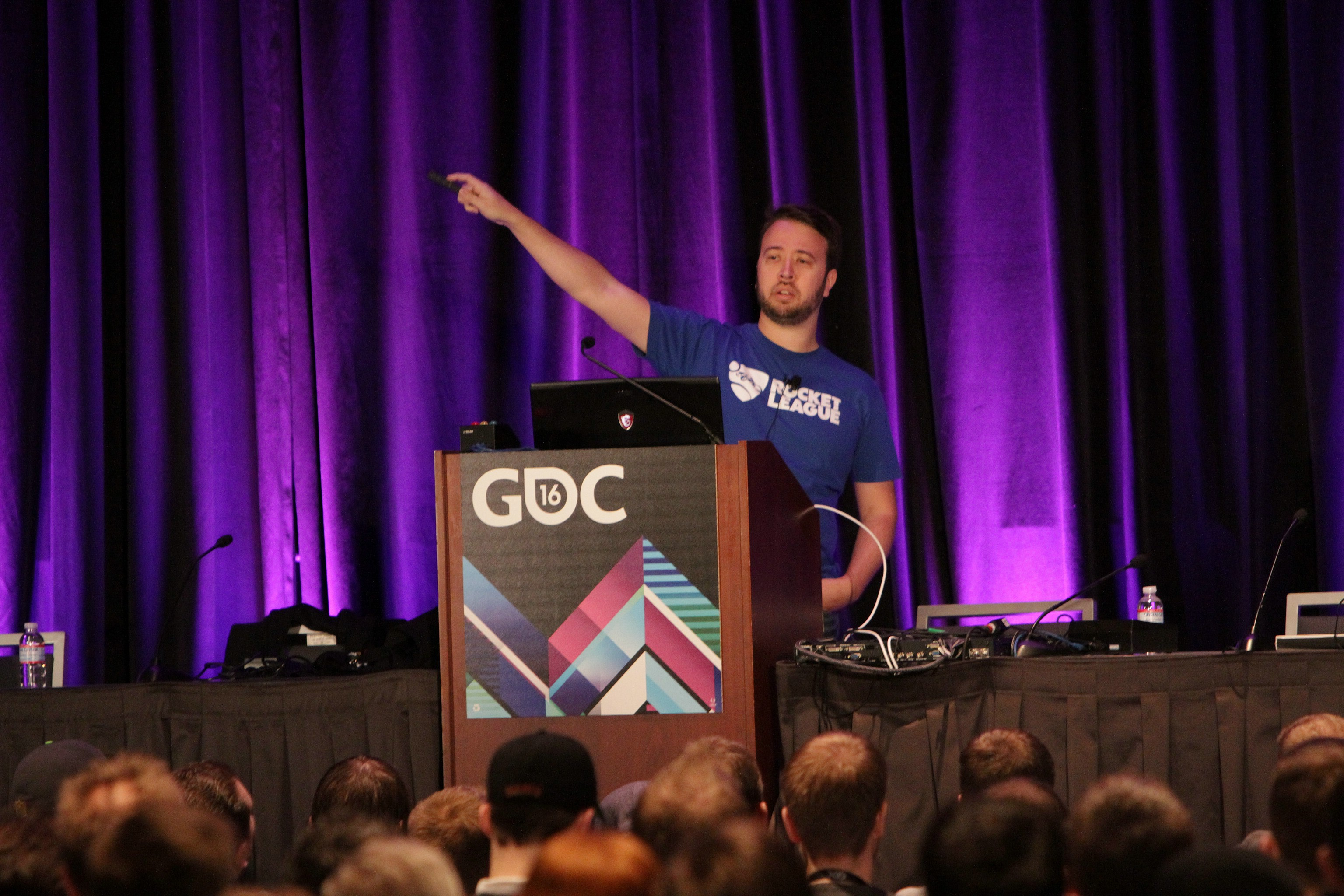 Rocket League: The Road From Cult Classic to Surprise Success Corey Davis | Design Director, Psyonix Location: Room 135, North Hall Date: Friday, March 18 Time: 10:00am - 11:00am